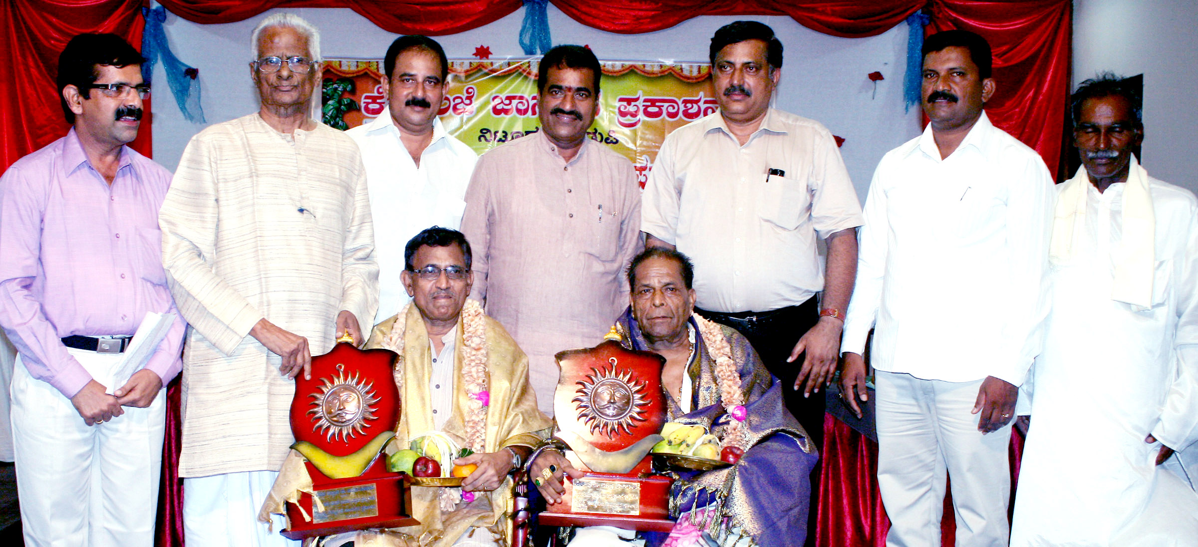 Vamana Nandavara